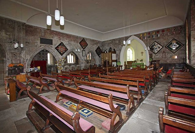 St Nicholas, Mavesyn Ridware, Staffs